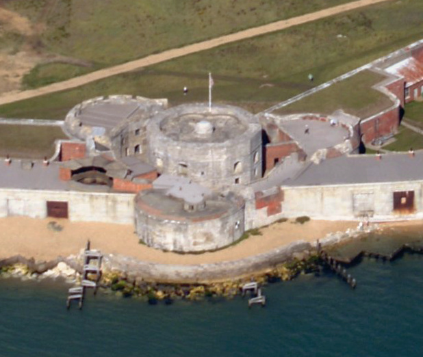 Hurst Castle, near Milford on Sea, Hampshire, England.